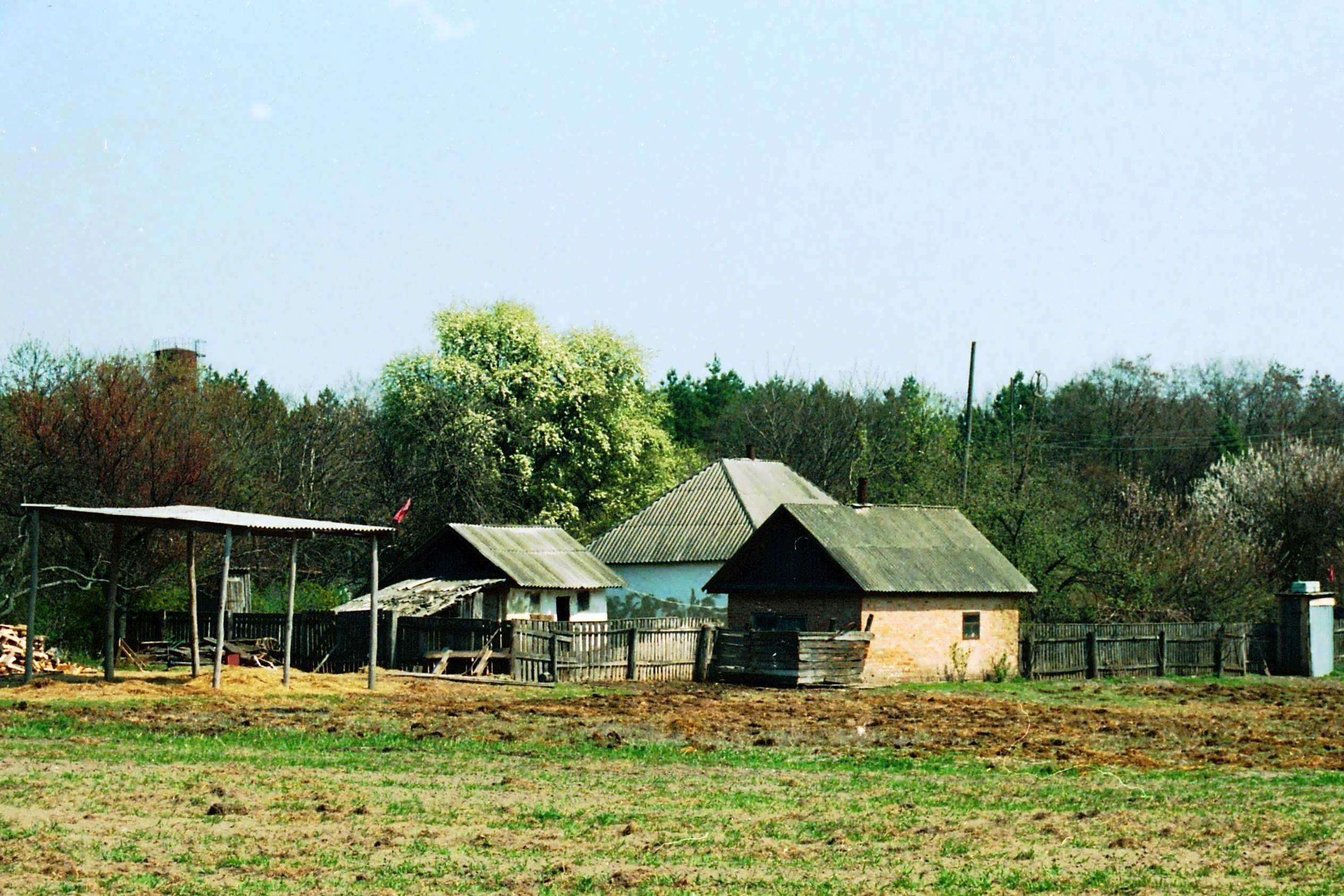 Some Ozeryshche (Ukraine) premises next to the forest.